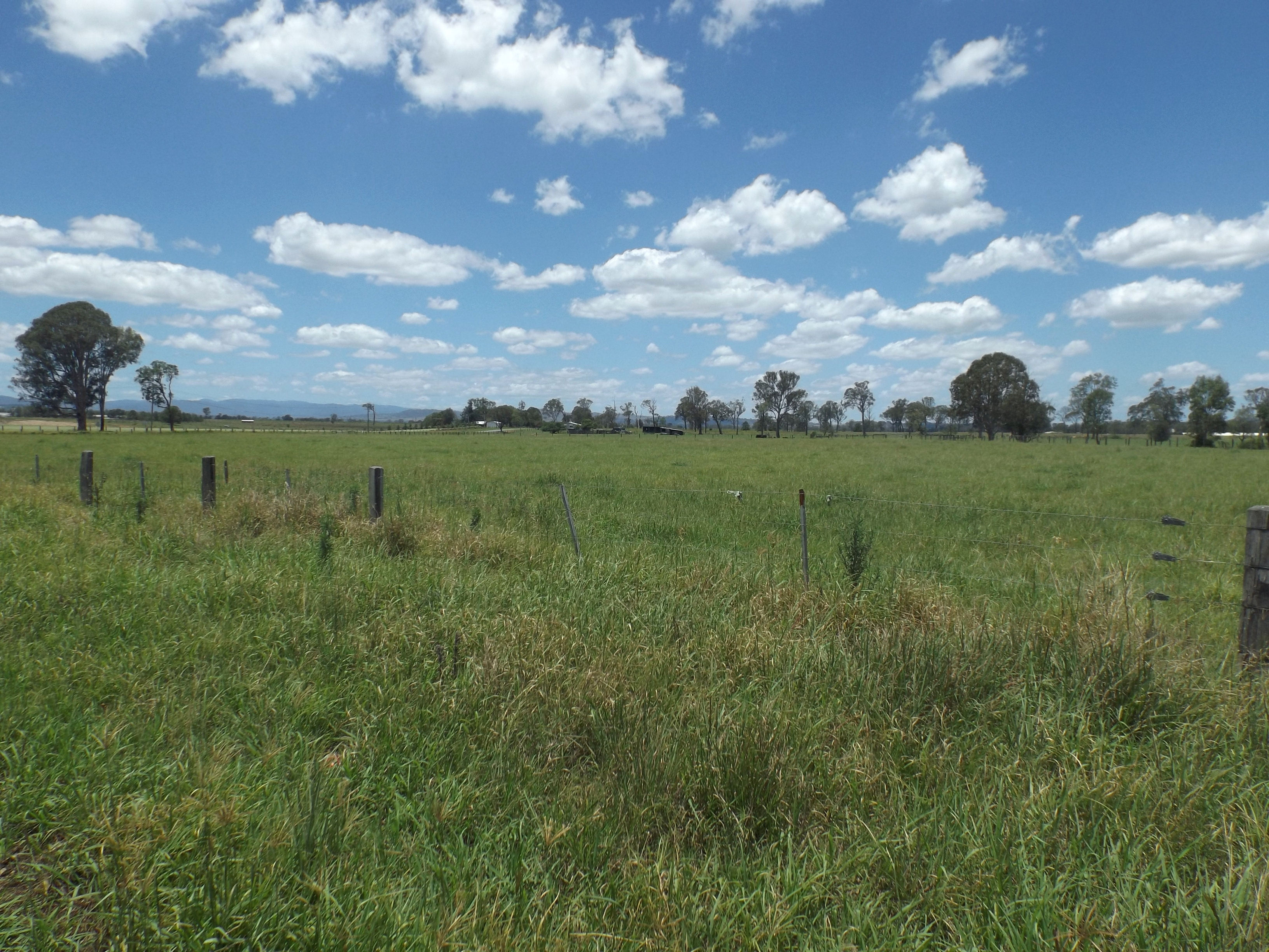 Photo of fields along Alan Creek Road at Gleneagle, Scenic Rim Region, Queensland, Australia.